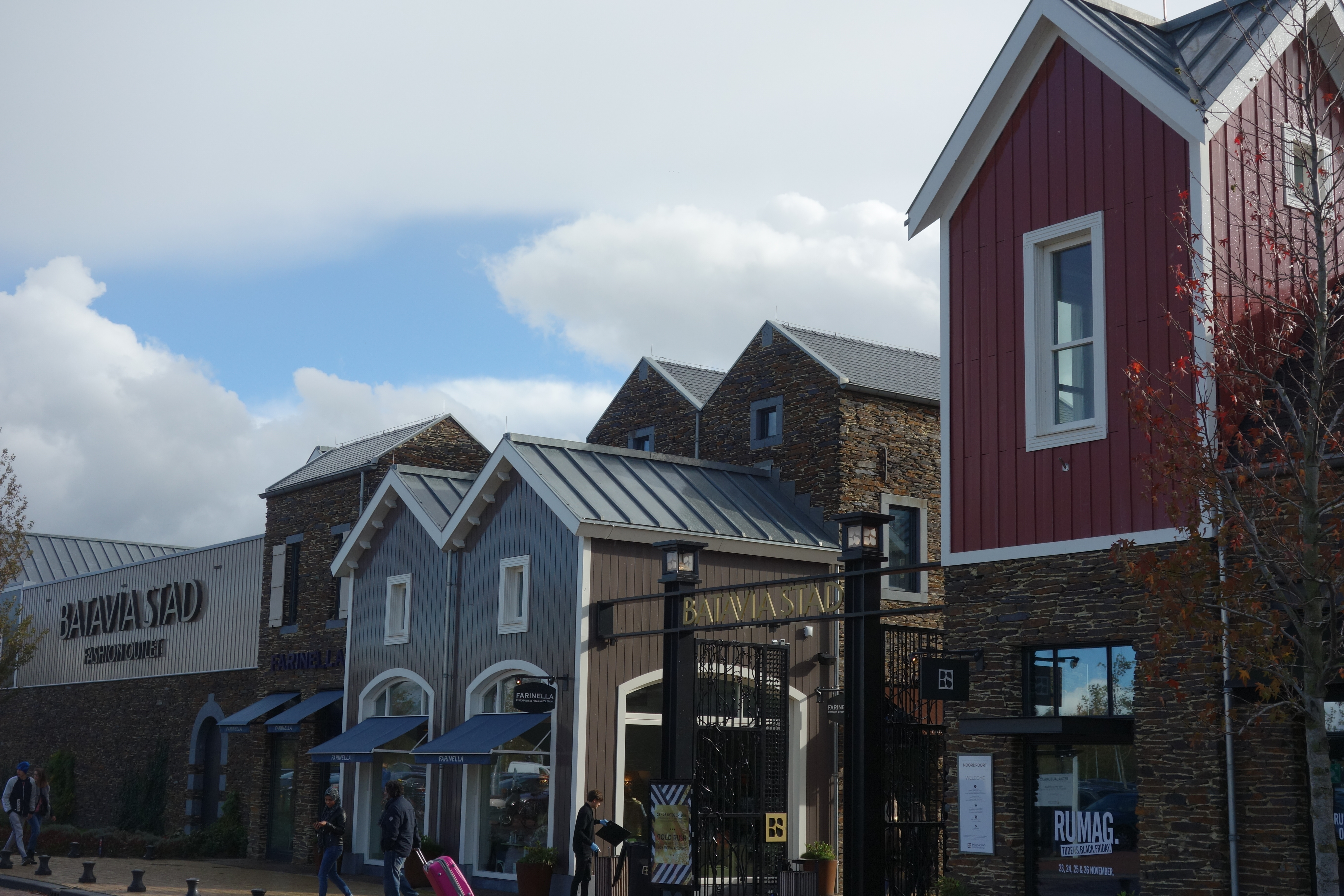 Entrance of shopping centre Batavia Stad, Lelystad (the Netherlands)